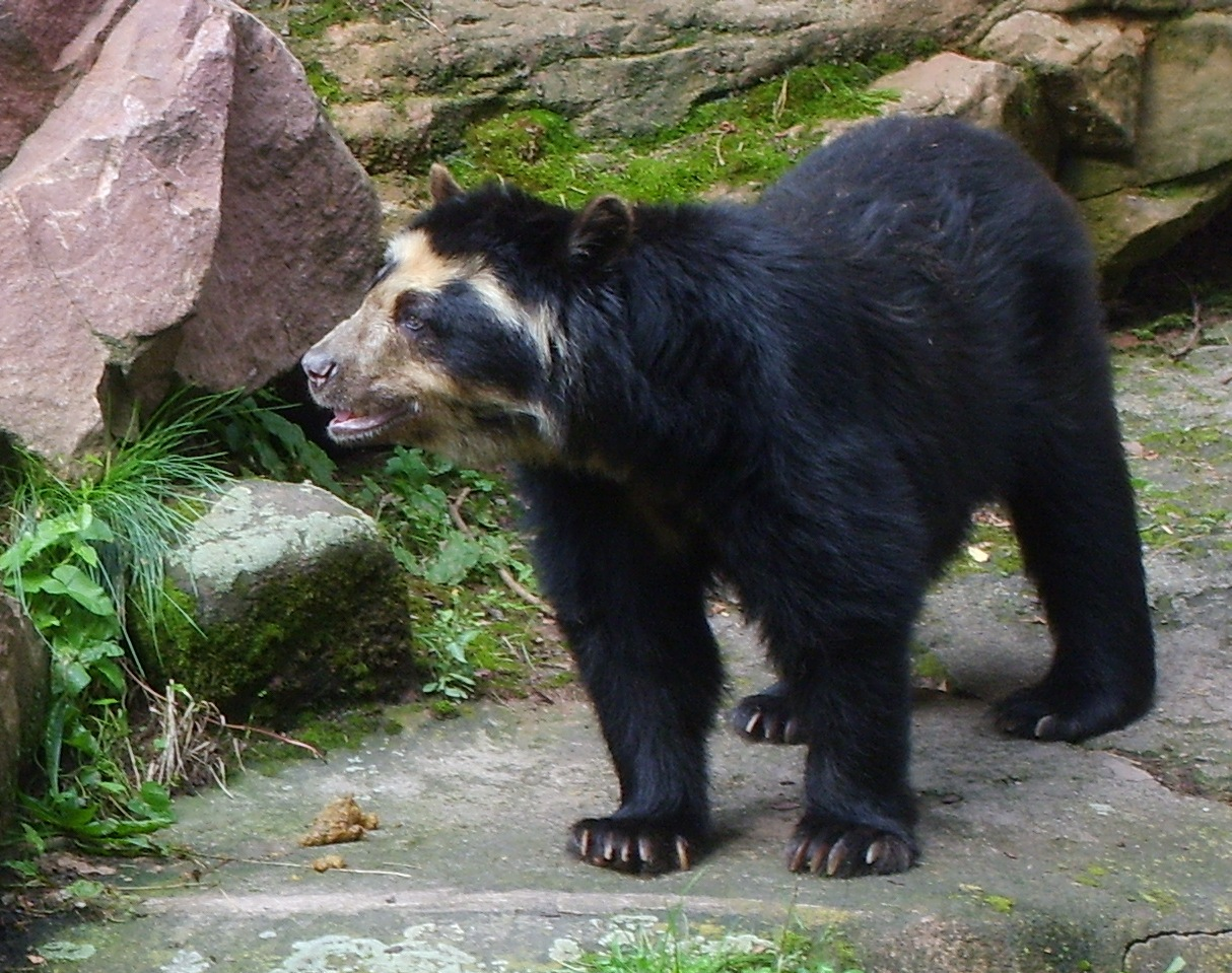 Spectacled Bear